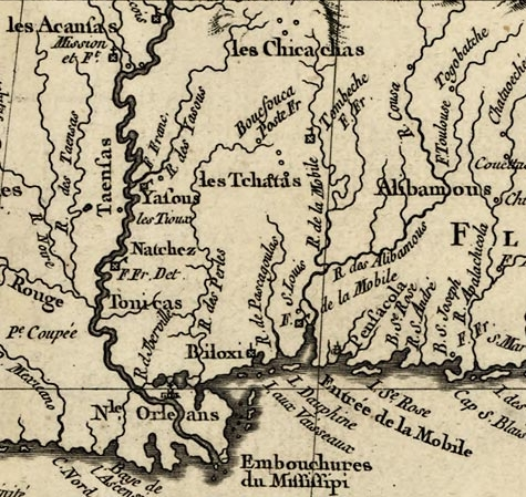 A portion of the original map: Louisiana and adjoining countries. Showing the location of Fort Tombecbe in what is now Sumter County, Alabama.